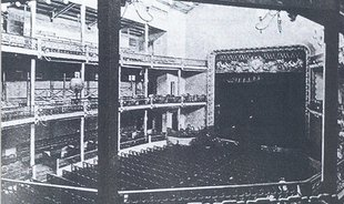 Photograph of the old Gran Teatro Español at Barcelona, 1909